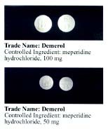 From the Department of Justice website [1].